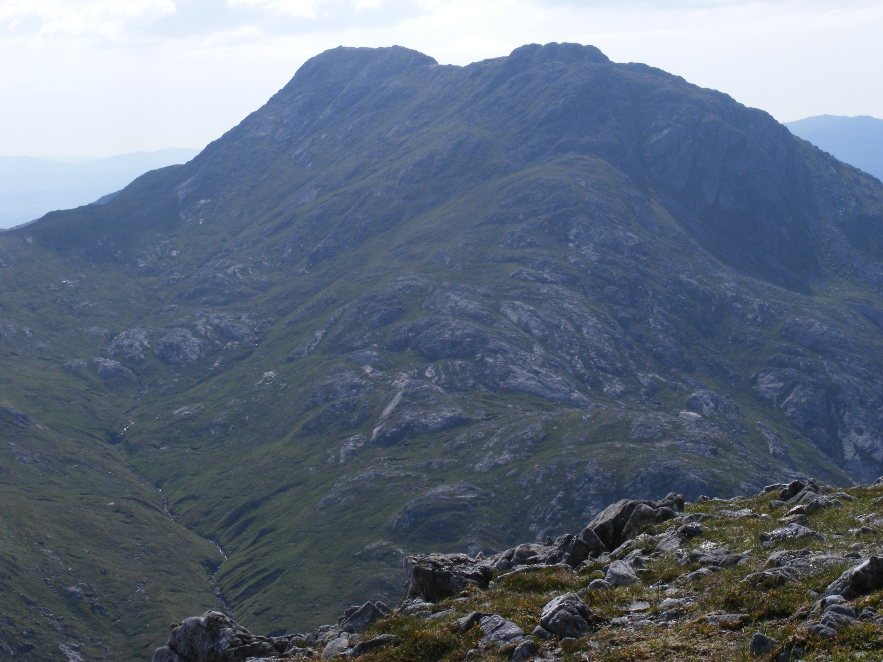 Sgurr Ghiubhsachain, seen from Sgorr Craobh a'Chaorainn